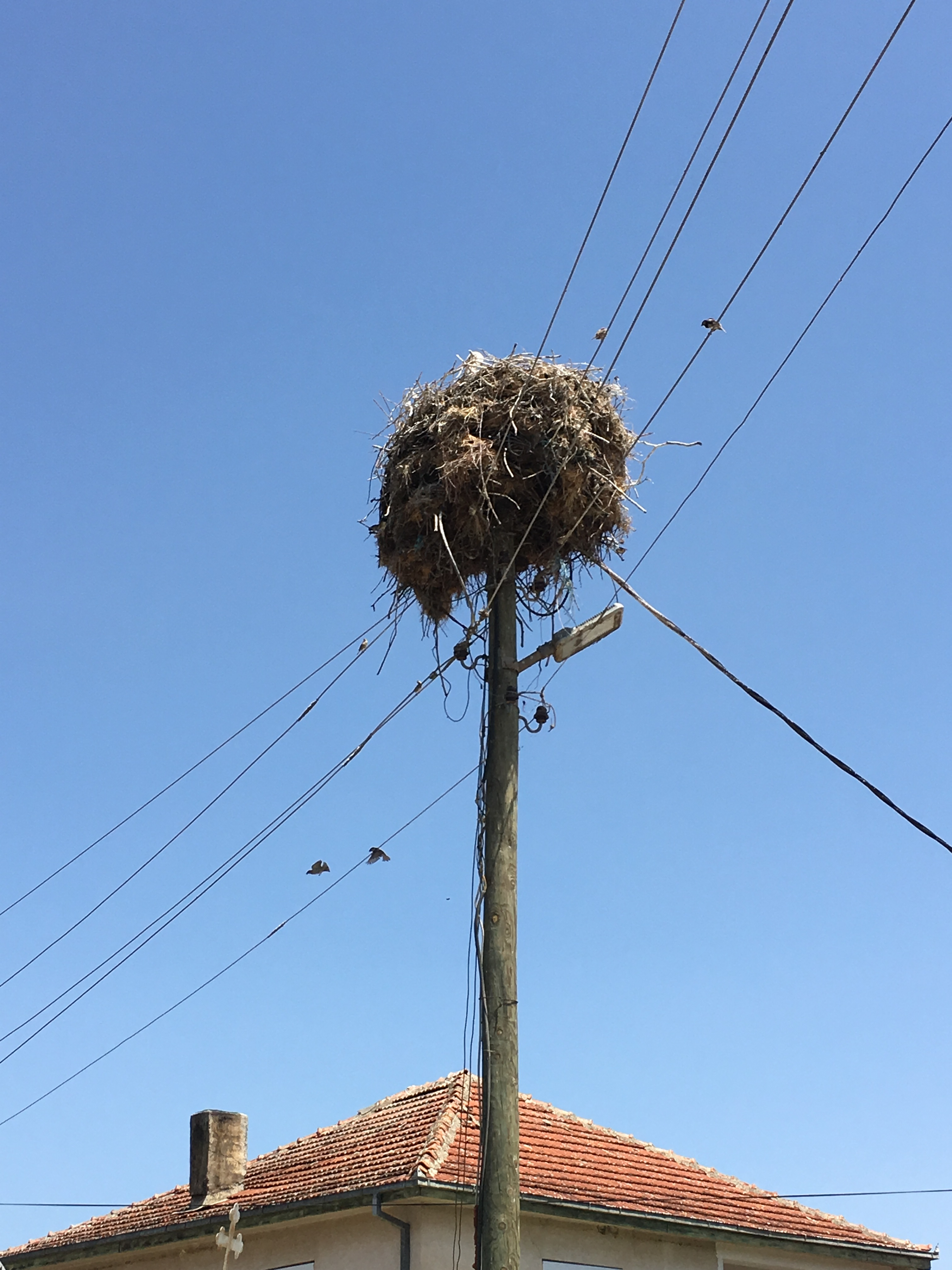 Stork nest in the village Vranište